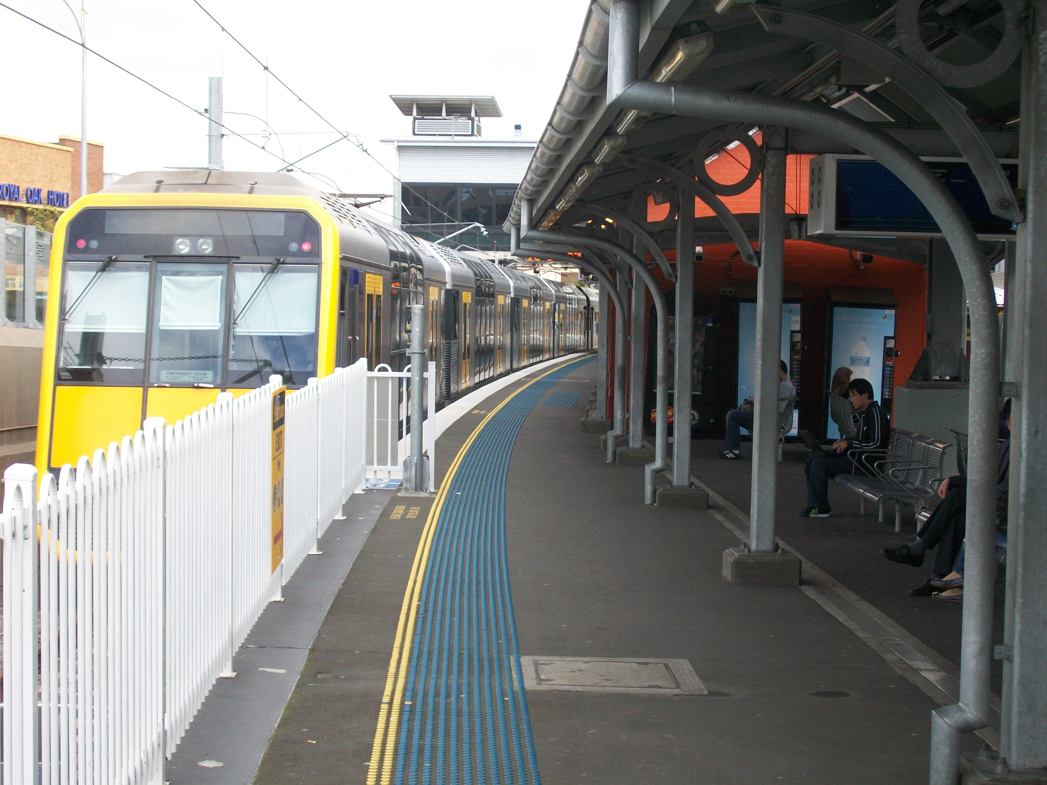 Lidcombe Railway station platform 5